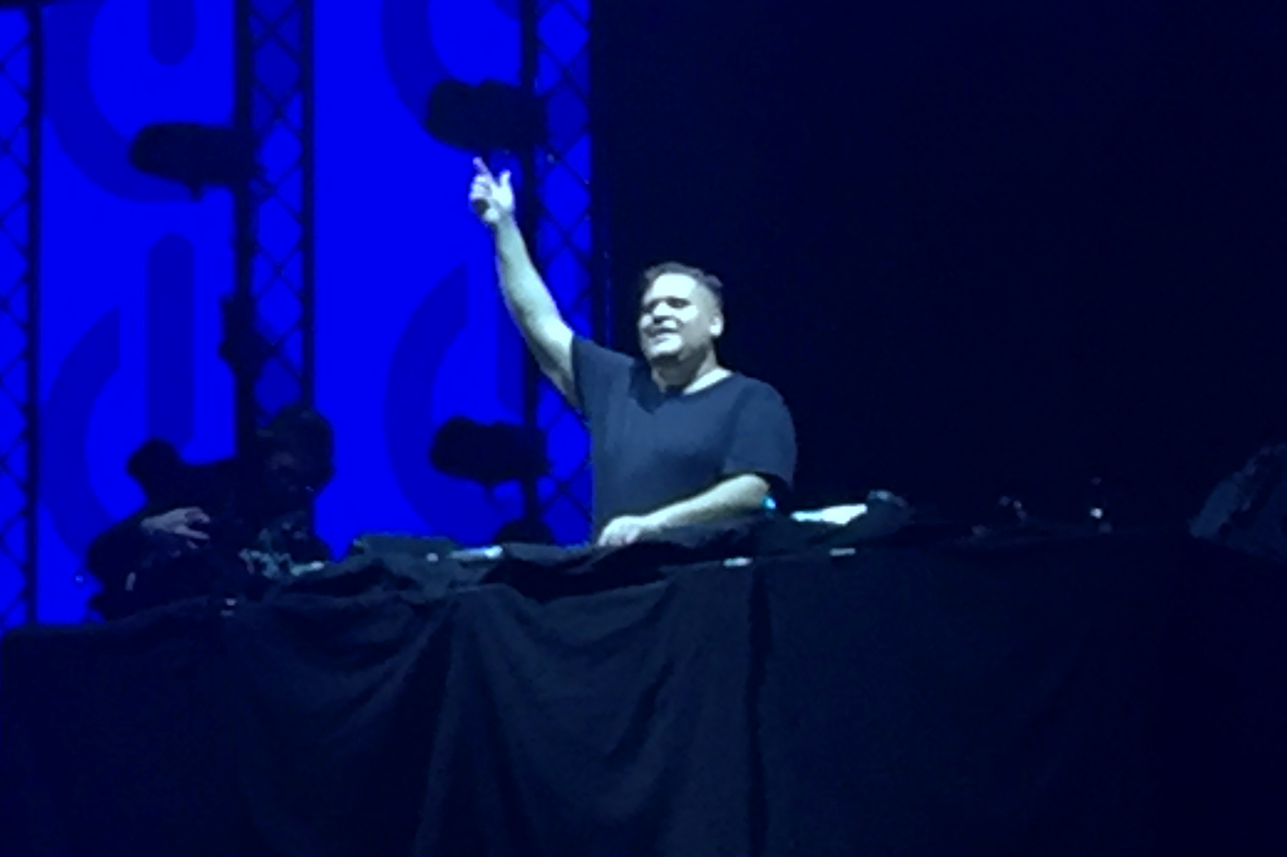 Justin Mylo playing live at BigCityBeats World Club Dome Winter Edition 2017.